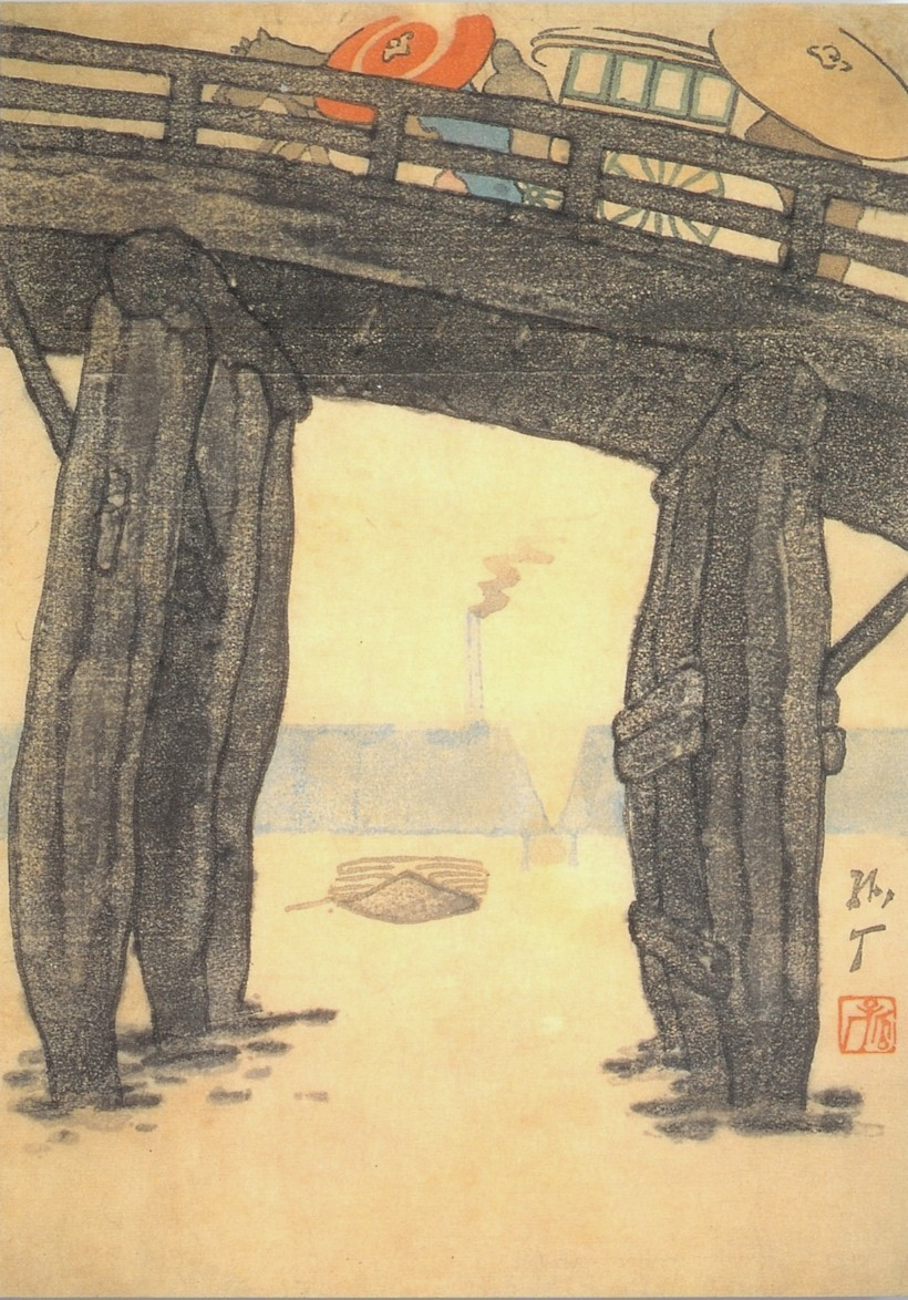 Woodblock print titled Senju Ohashi